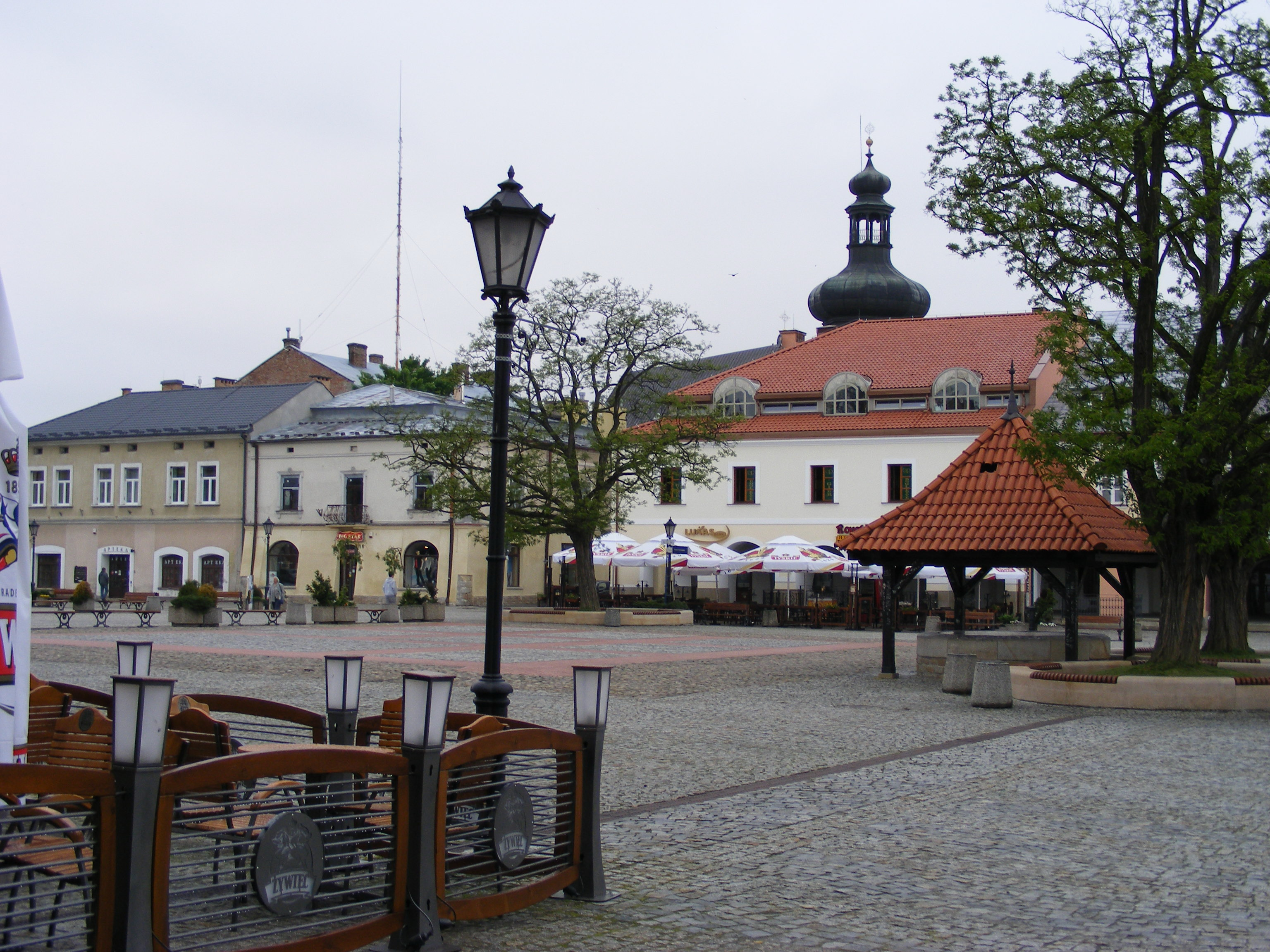 Square in Krosno